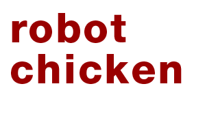 robot chicken